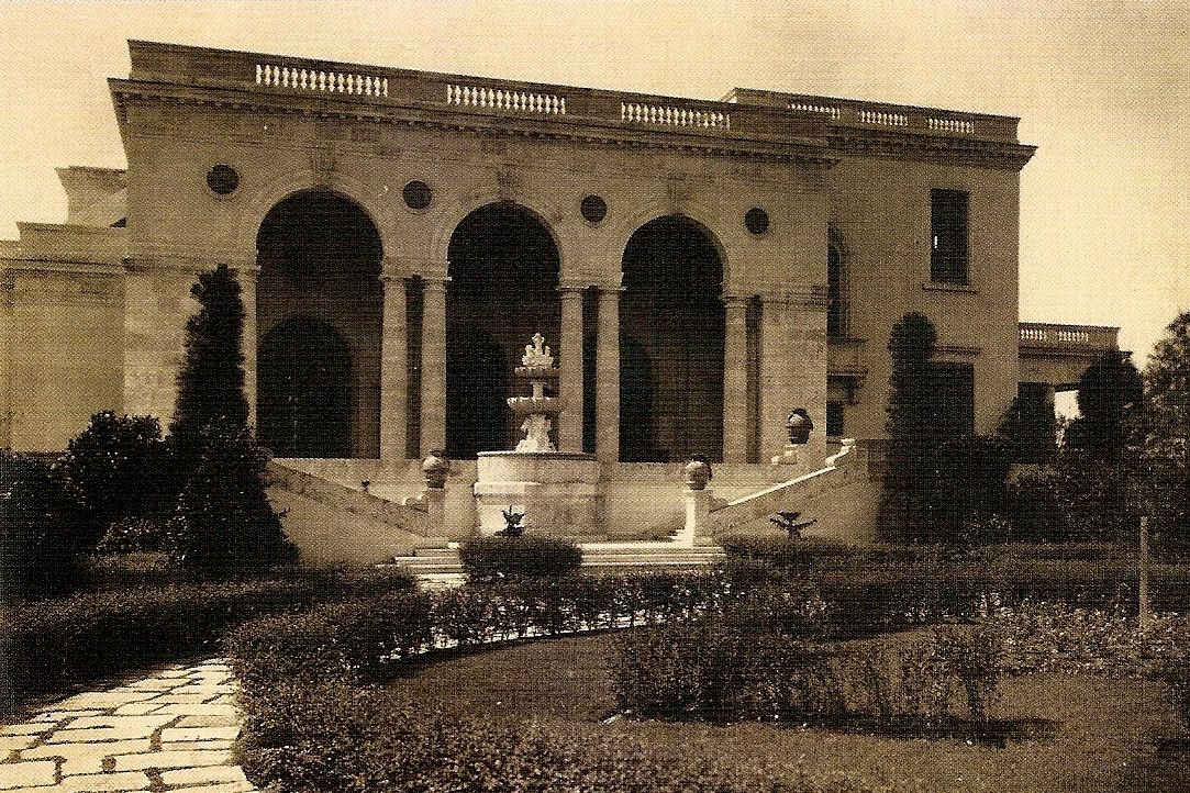 Home of Mark Pollack in Havana, Cuba - taken in 1931